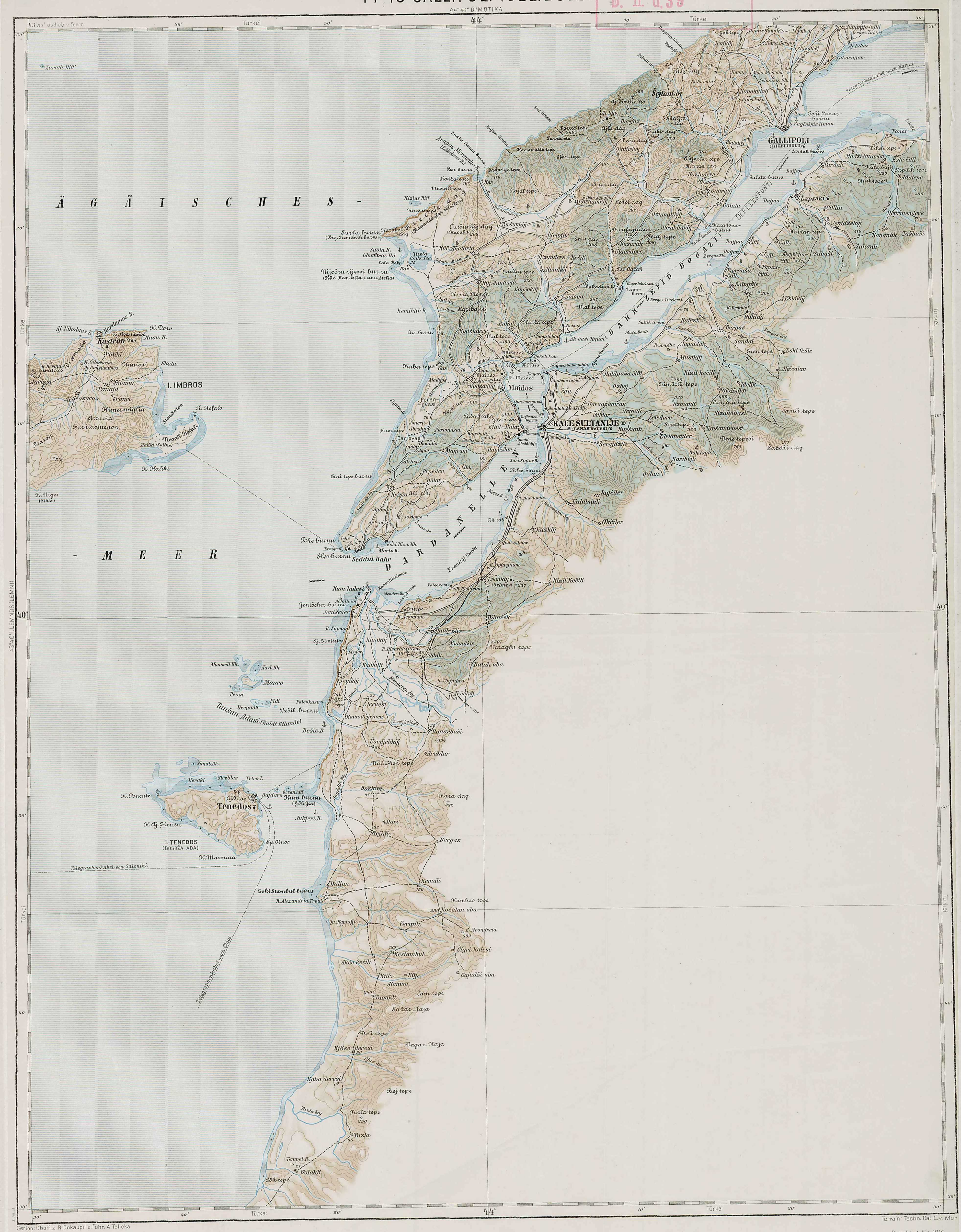 3rd Military Mapping Survey of Austria-Hungary - Gallipoli